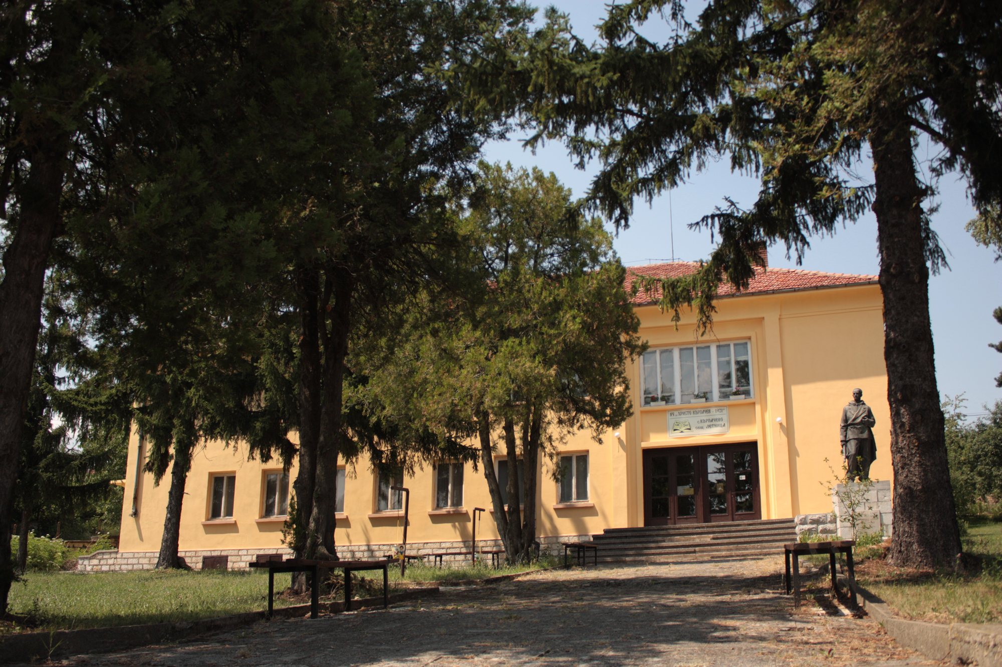 Chitalishte (Culture club) of Karpachevo Village, Bulgaria